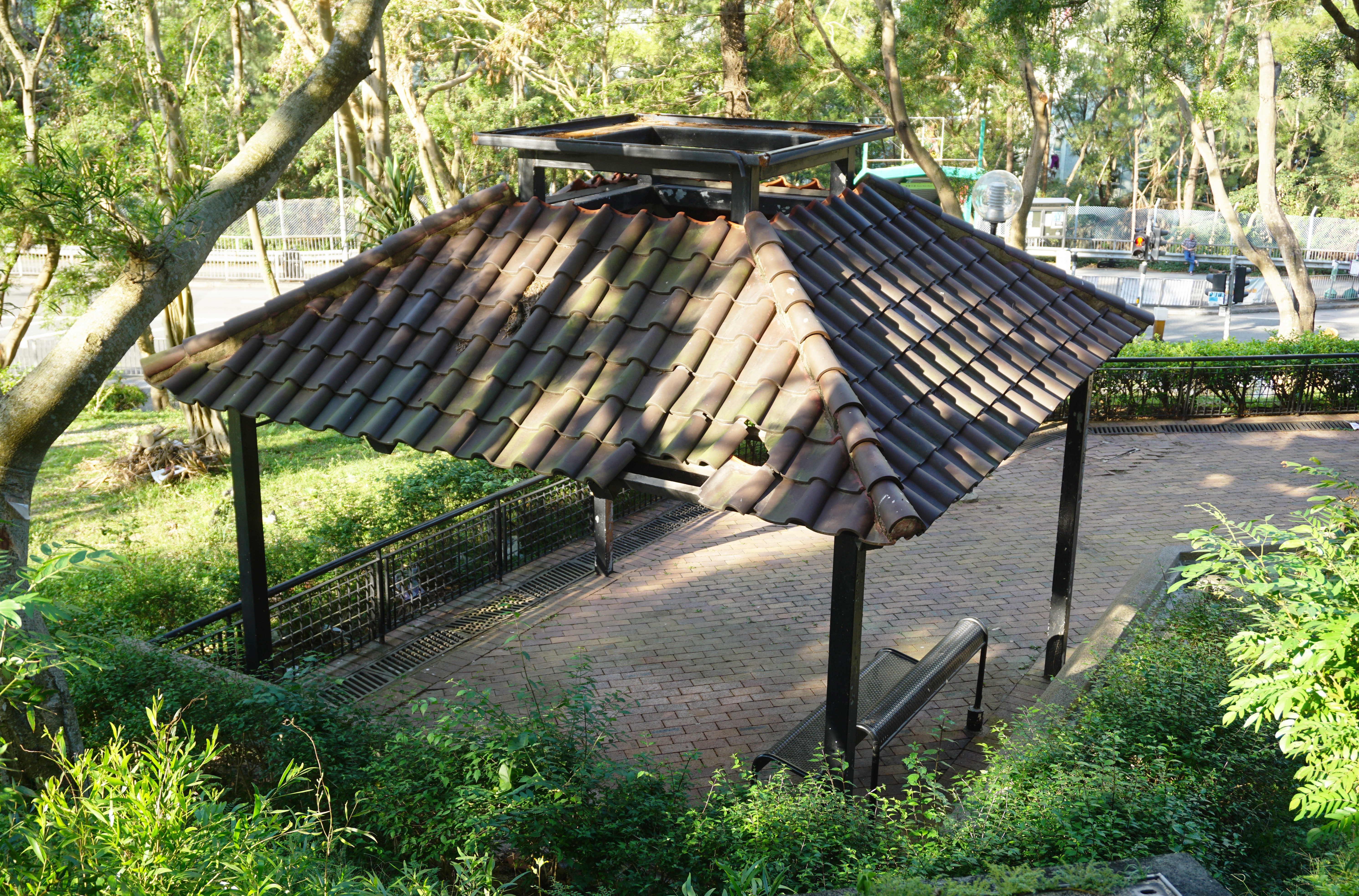 Kam Ying Court in Ma On Shan, Hong Kong.